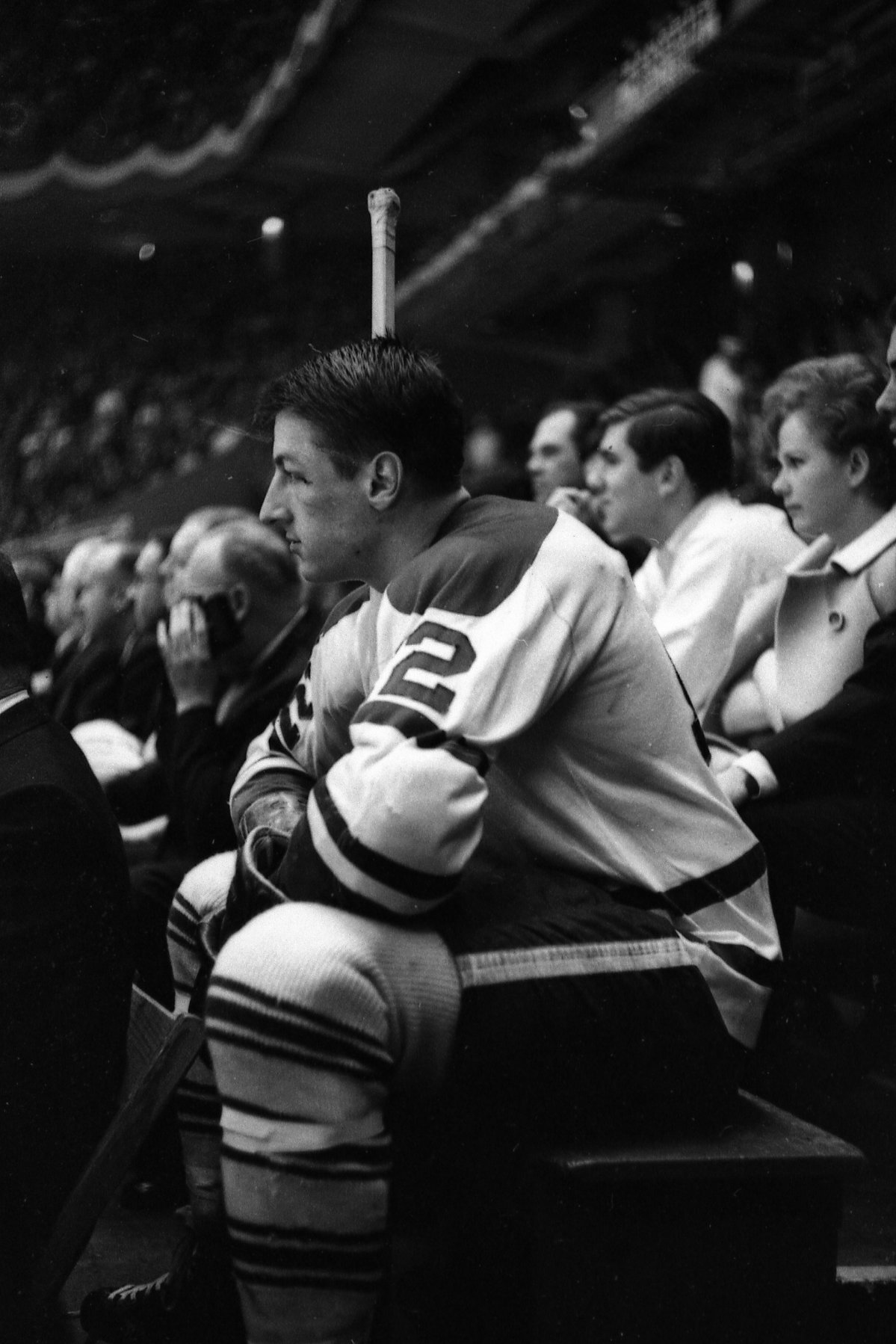 Pete Stemkowski, playing for the Toronto Maple Leafs, sitting in the penalty box at Madison Square Garden, New York City during a game against the New York Rangers.